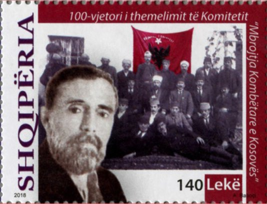 Kadri Prishtina and Centenary of the Kosovo National Defense Committee